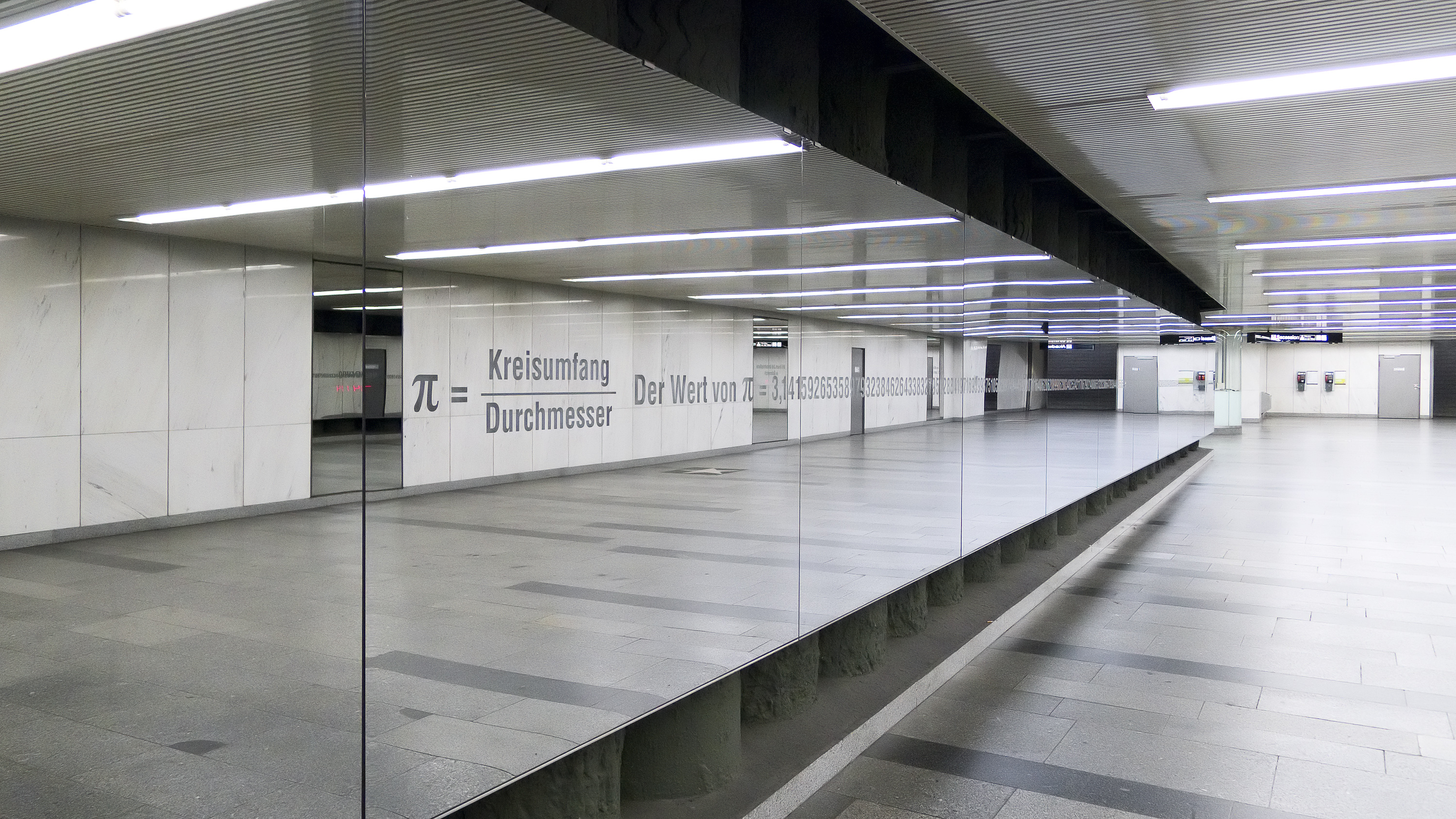 Underground station U-Bahn-Station Karlsplatz in Vienna